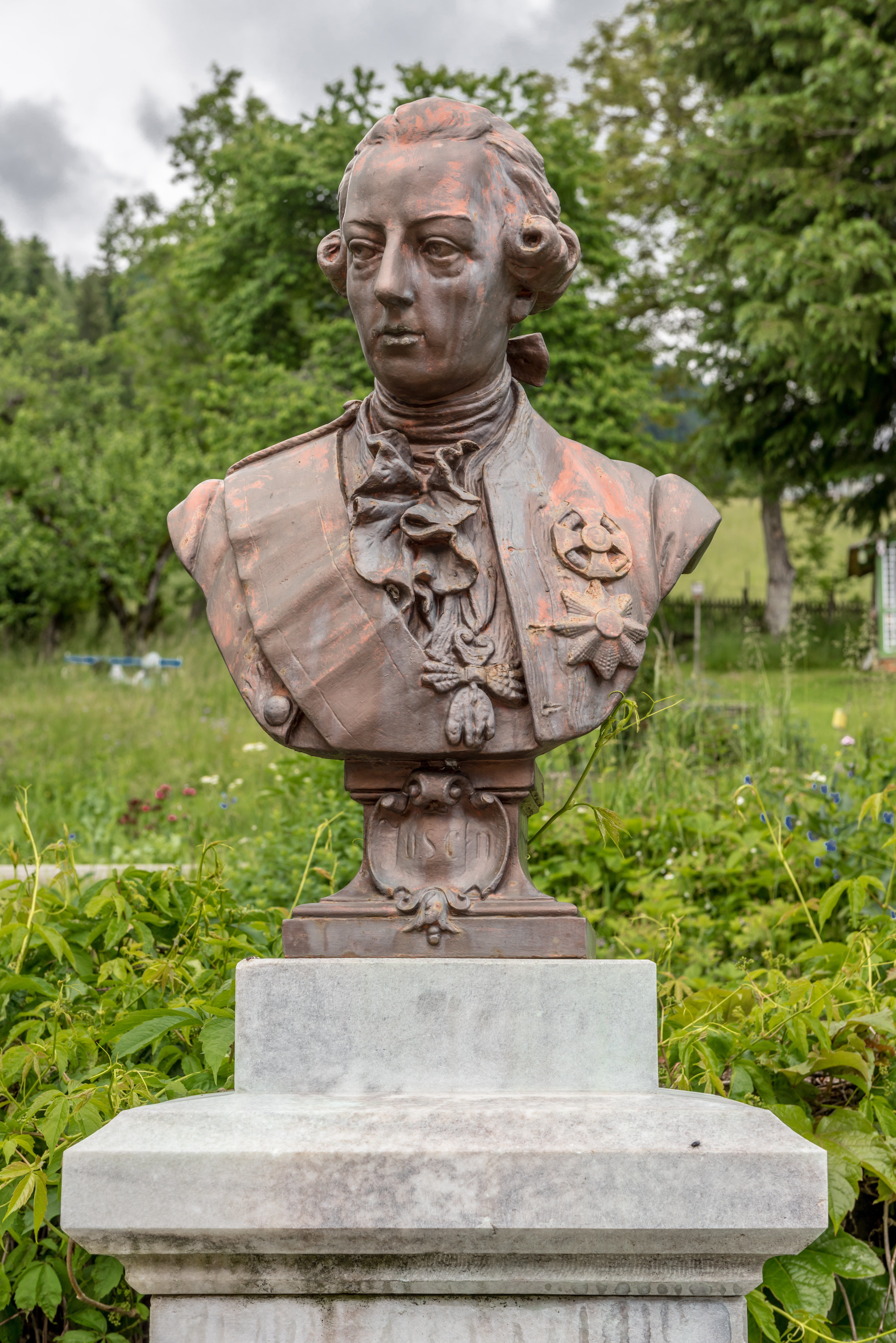 Memorial for Emperor Joseph II. in Arriach, district Villach Land, Carinthia, Austria, EU